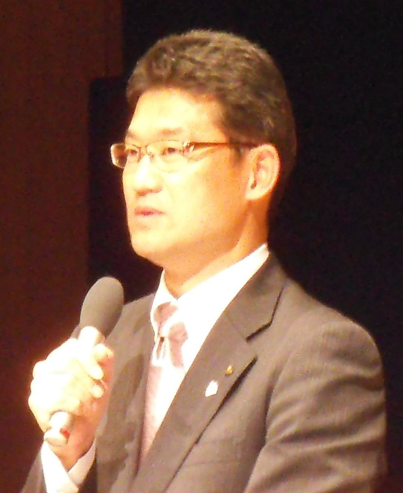 Miyazaki Governor Shunji Kouno speaking at Meiji University